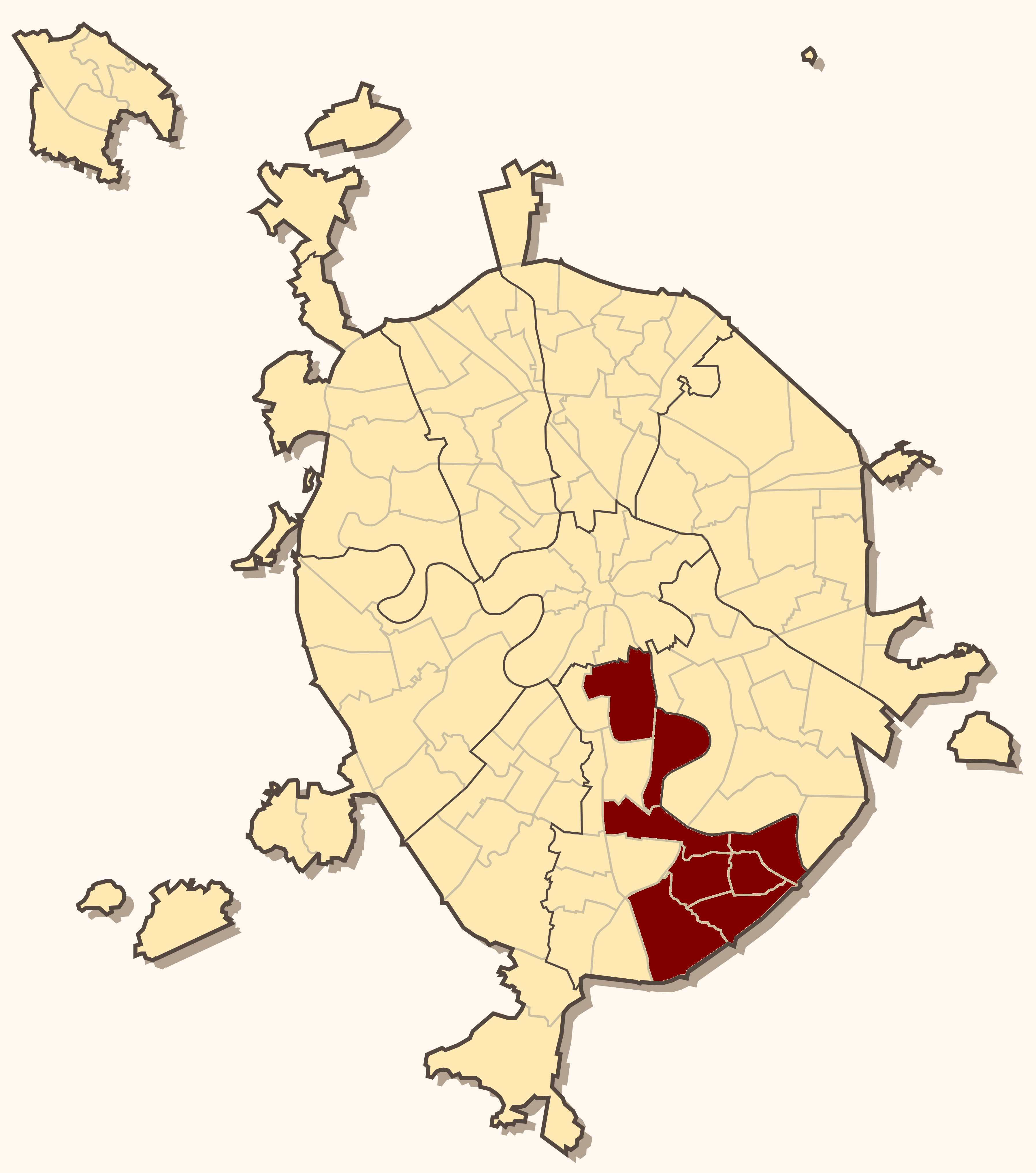 Map of Danilovskoe Blagochinie of Moscow